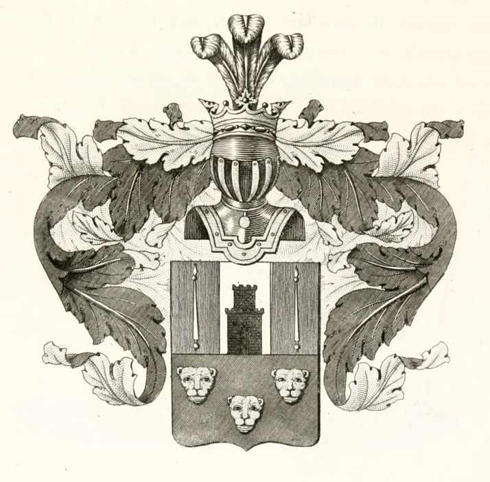 Golownin family's coat of arms. Personnaly scanned